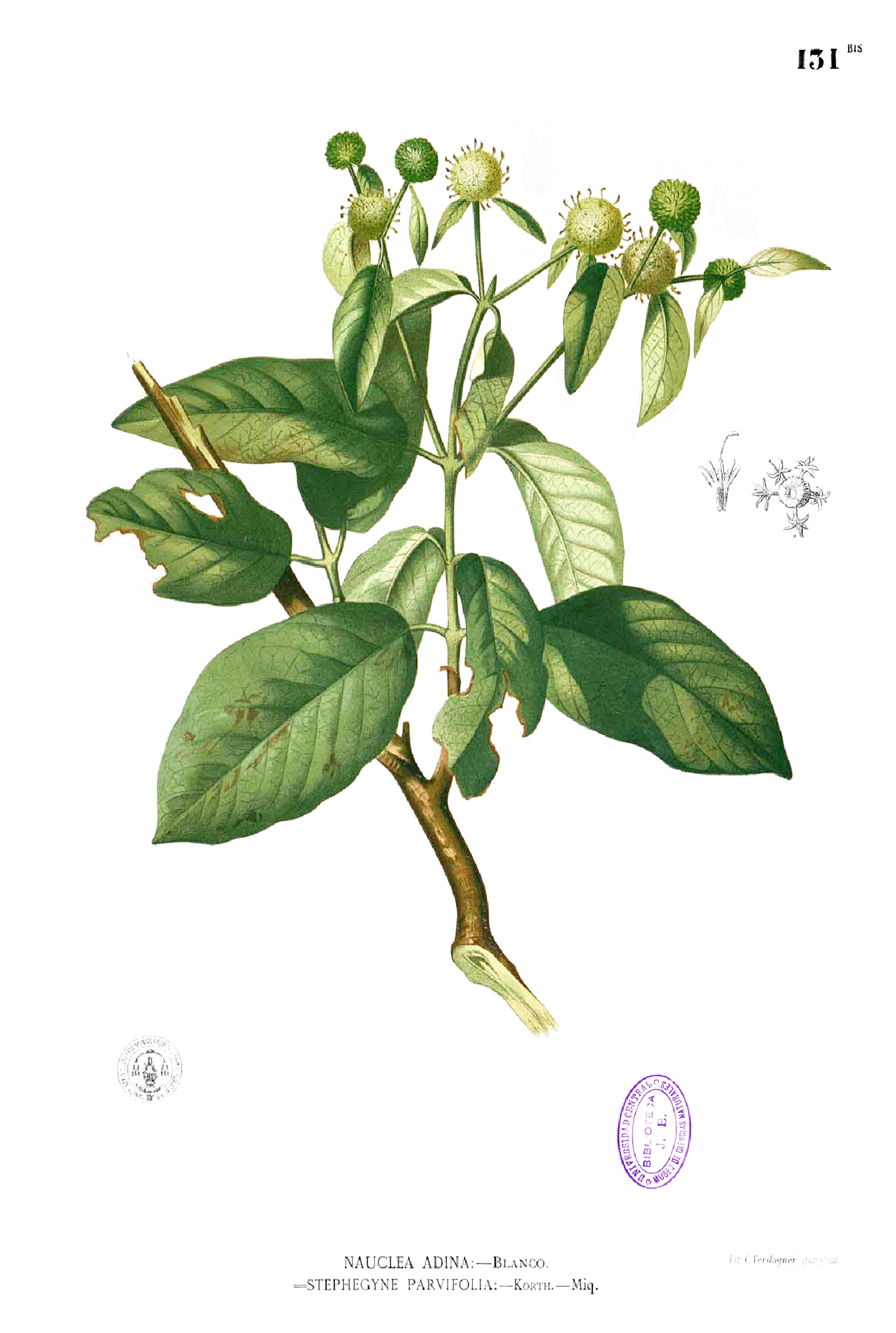 Plate from book